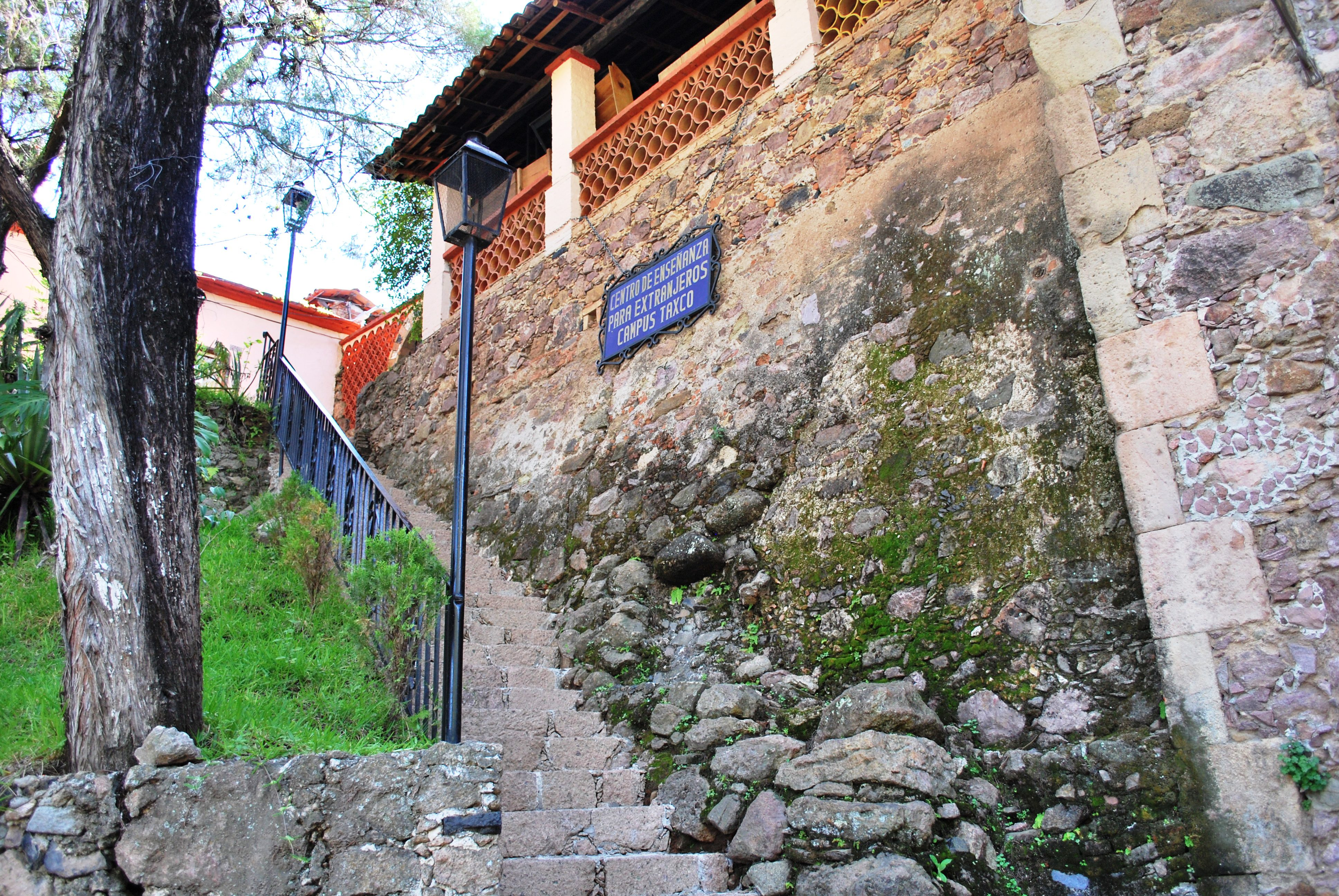 Part of the main building of the Ex-hacienda de Chorrillo in Taxco de Alarcón, Guerrero, Mexico